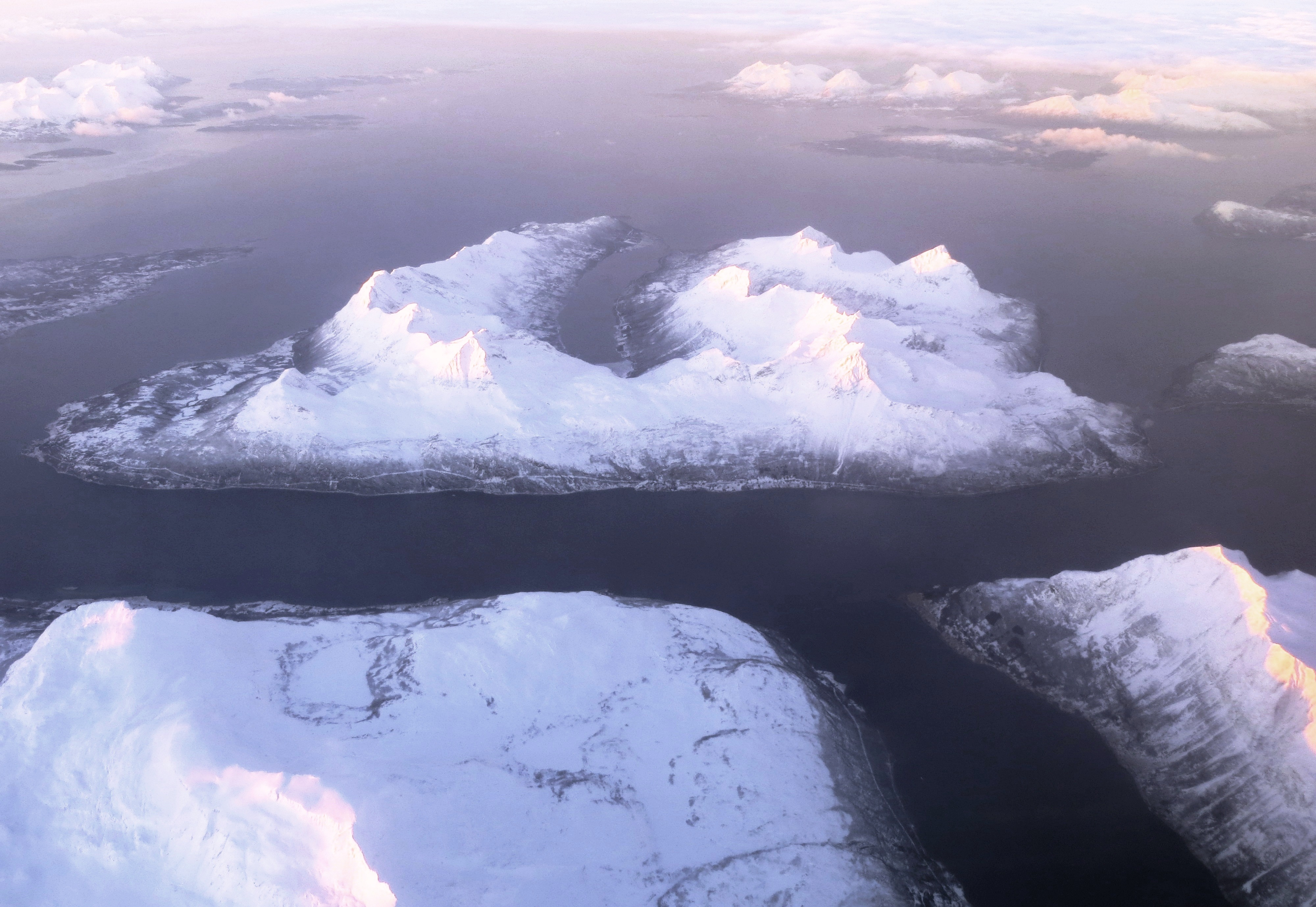 Aerial view from the east towards west, of the municipalities of Ibestad (islands) and Gratangen (mainlaid), southern Troms county - Norway. The distincctive island in the center is Andørja.